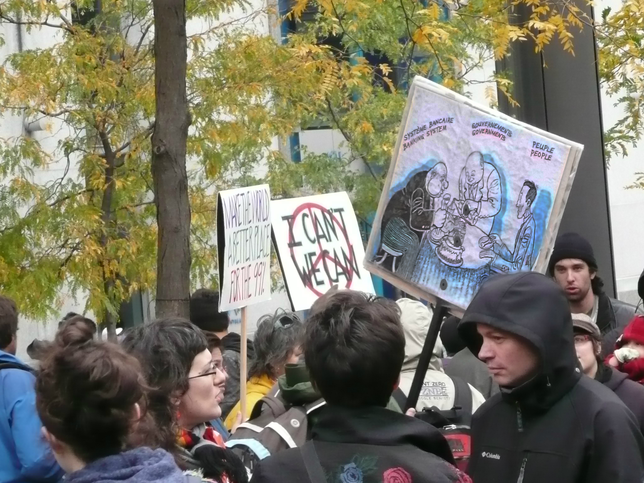 A sign protesting corporatocracy at Occupy Montreal on Saturday, October 15, a Global Day of Action for the Occupy Together movement. Over 1,000 people convened at Victoria Square to take part in the peaceful democratic expression.